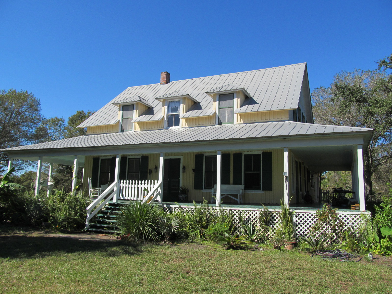 The Captain Hammond House of Fort Pierce, Florida is on the National Register of Historic Places.